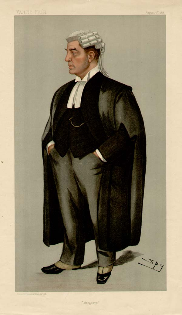 Caricature of Mr Henry Bargrave Finnelly Deane QC. Caption read "Bargrave".